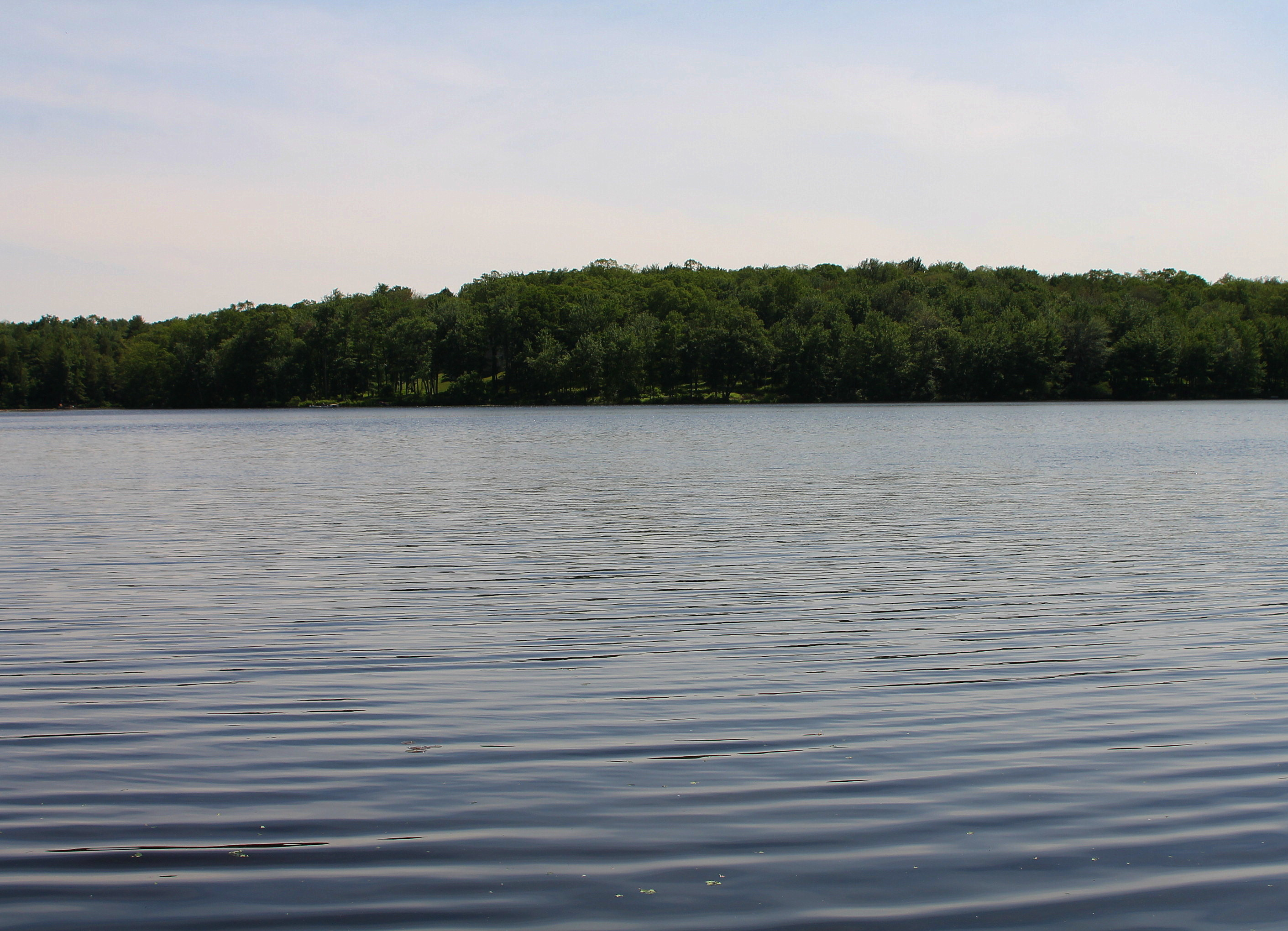 View of The Ice Ponds, Rice Township, Luzerne County, Pa